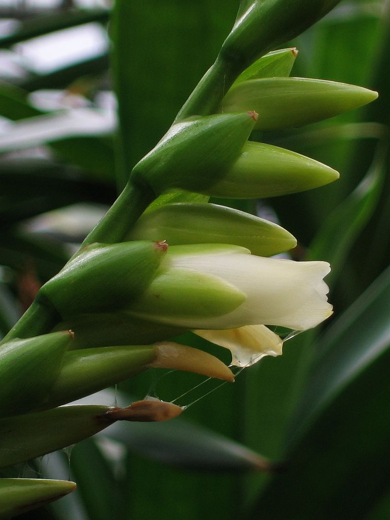 Vriesea roethii in cultivation at the Botanical Garden of Heidelberg, Germany.